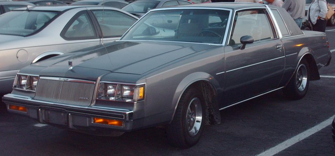 1982-1987 Buick Regal photographed in Montreal, Quebec, Canada at Gibeau Orange Julep.